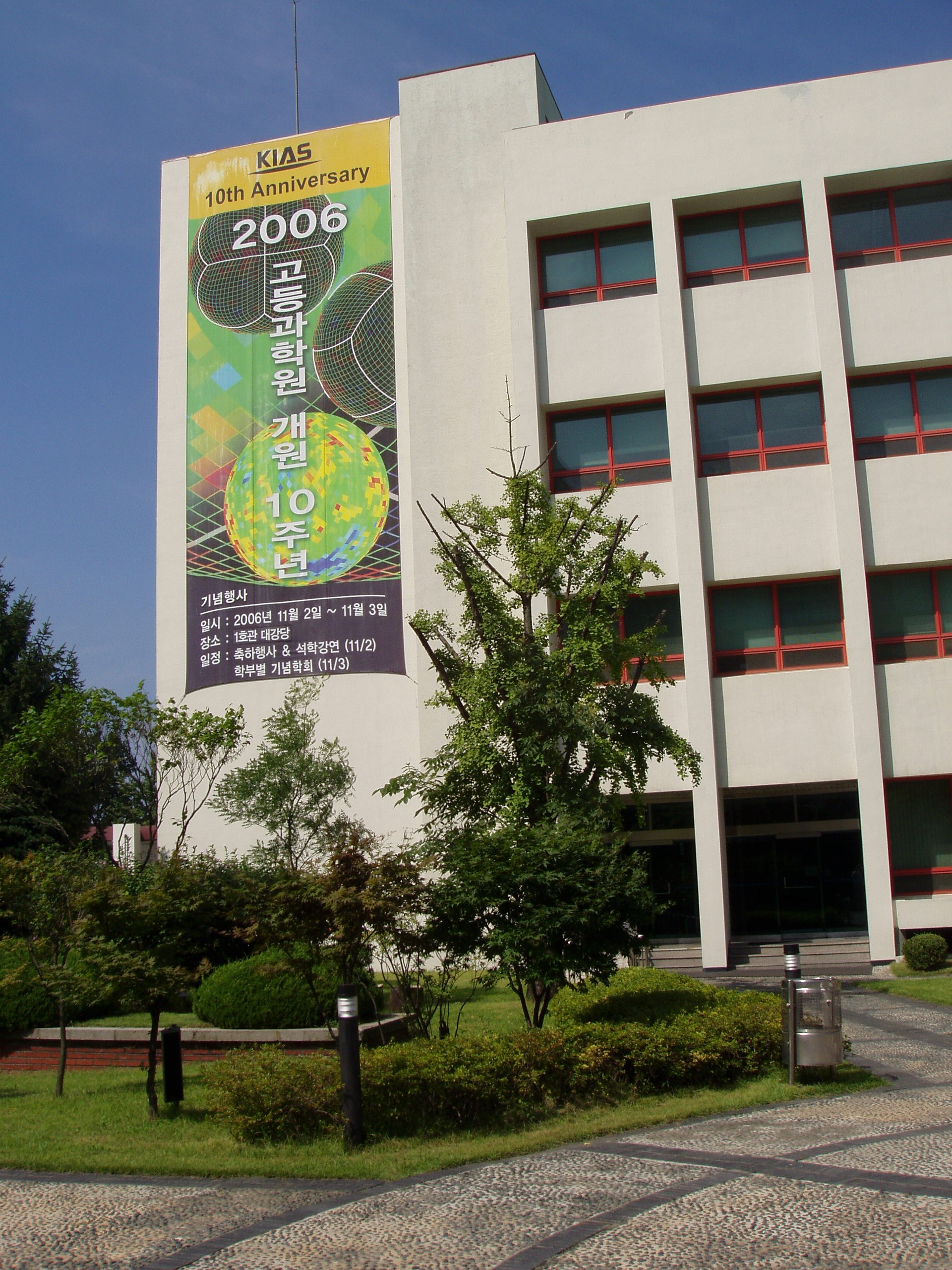 Korea Institute for Advanced Study, Seoul, Korea.